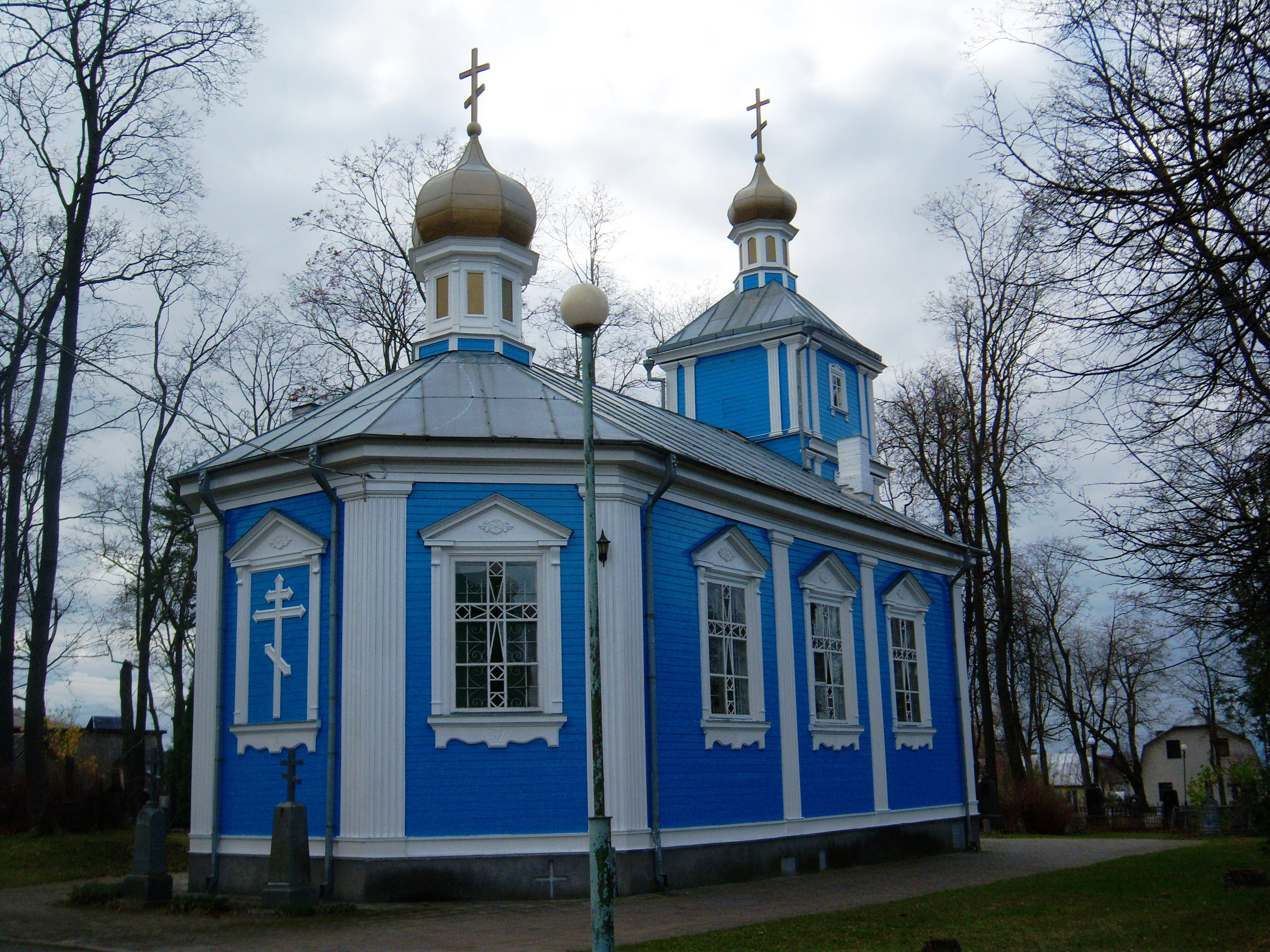 Lord's Resurrection Orthodox Church, Panevėžys, Lithuania